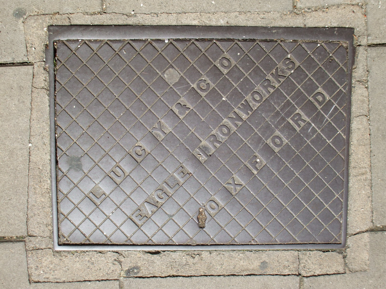 Utility access cover in Beaumont Street, Oxford, England, bearing the text LUCY & CO, EAGLE IRONWORKS, OXFORD.